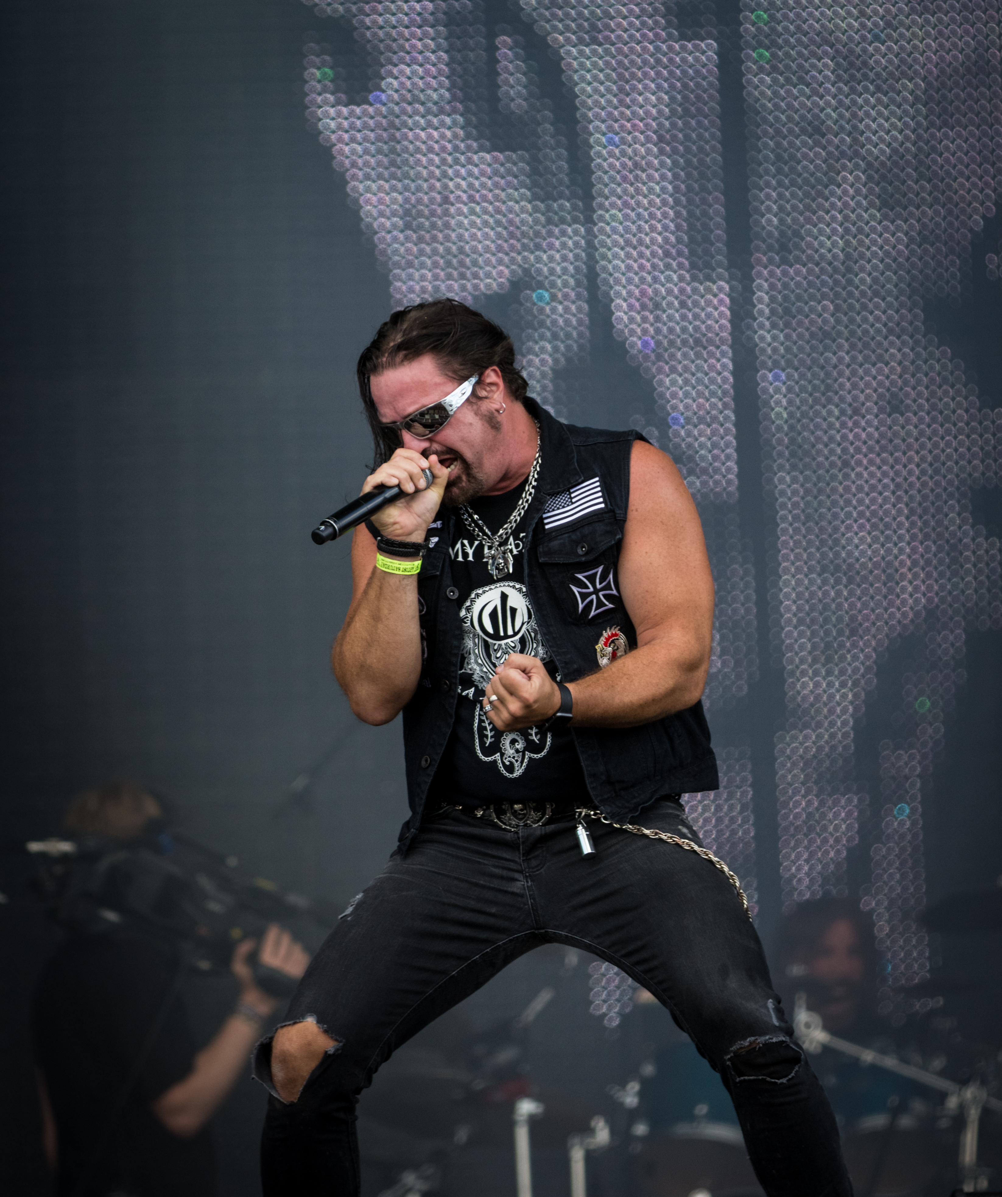 Symphony X - Wacken Open Air 2016